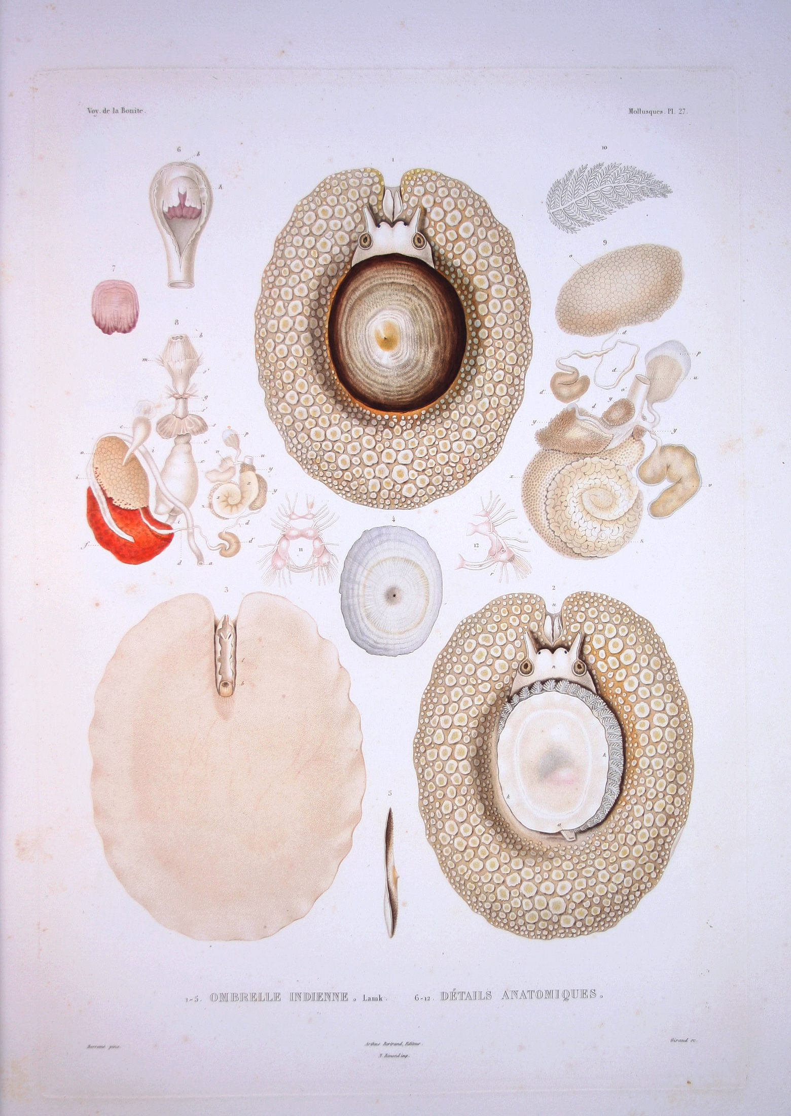 Zoology (molluscs)